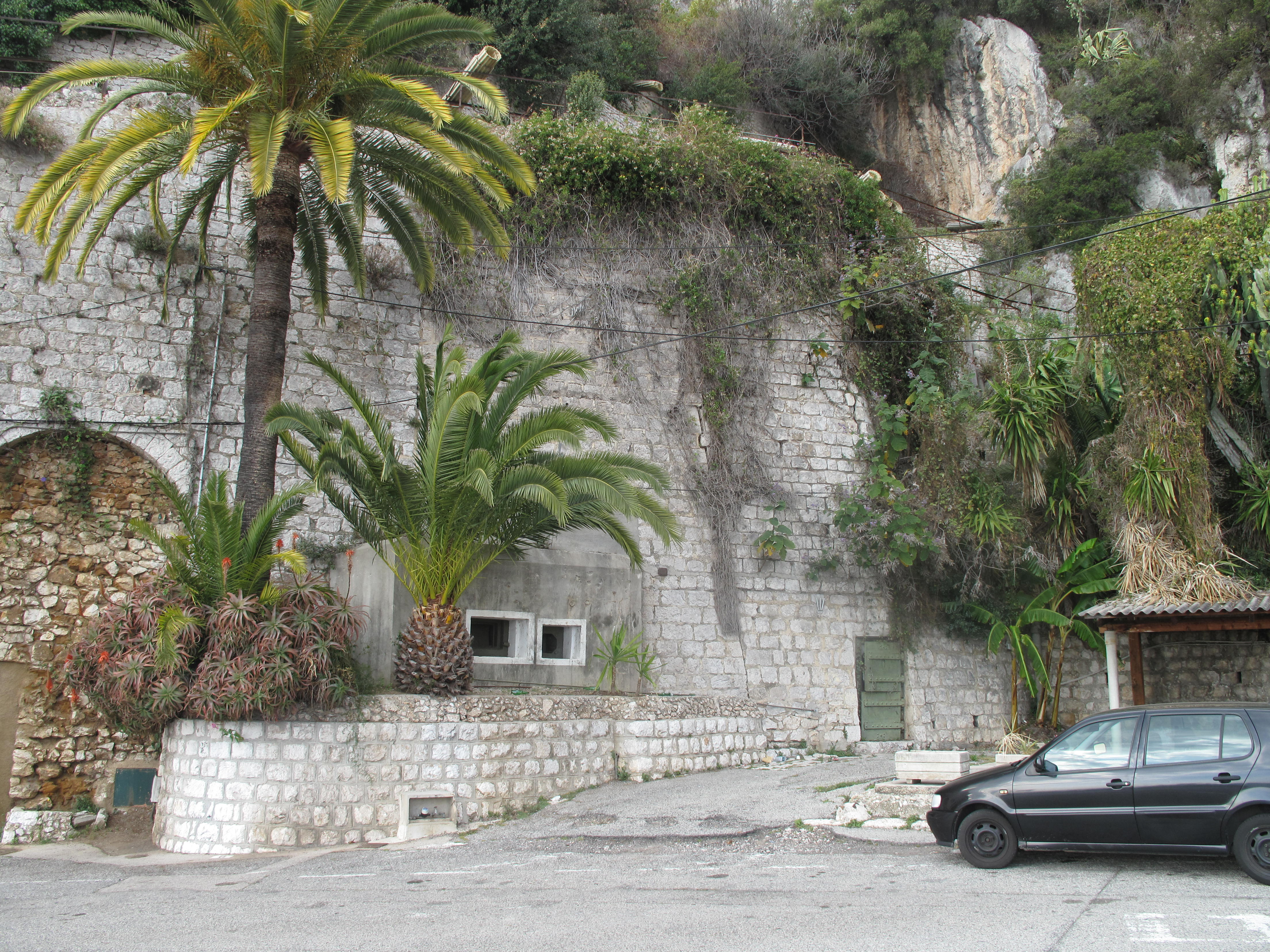 Small bunker of the Saint-Louis bridge, part of the Maginot line, near the former upper customs : Menton (Alpes-Maritimes, France).